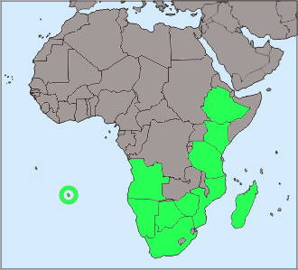 Distribution of Kewa species by country according to Christenhusz, M. J. M., Brockington, S. F., Christin, P.-A. and Sage, R. F. (2014). "On the disintegration of Molluginaceae: a new genus (Kewa, Kewaceae) segregated from Hypertelis, and placement of Macarthuria in Macarthuriaceae". Phytotaxa 181: 238–242. Magnolia Press.